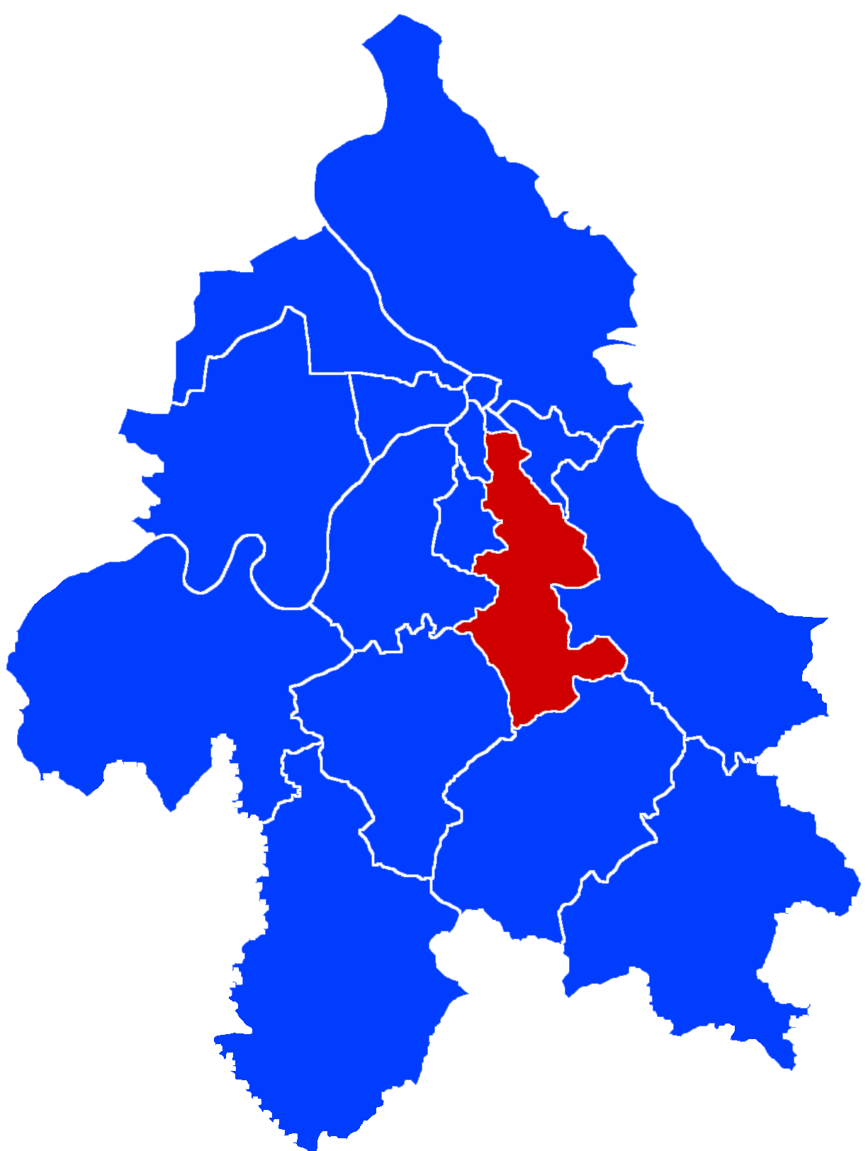 The graphical representation of the municipality of Voždovac within the city of Belgrade